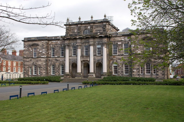 The Union Theological College, Belfast The Union Theological College, Botanic Avenue, Belfast was built in 1852-53 to a design by Charles Lanyon. The material is Scrabo freestone. The college trains for the ordained ministry of the Presbyterian Church in Ireland. It also offers further training for existing clergy.